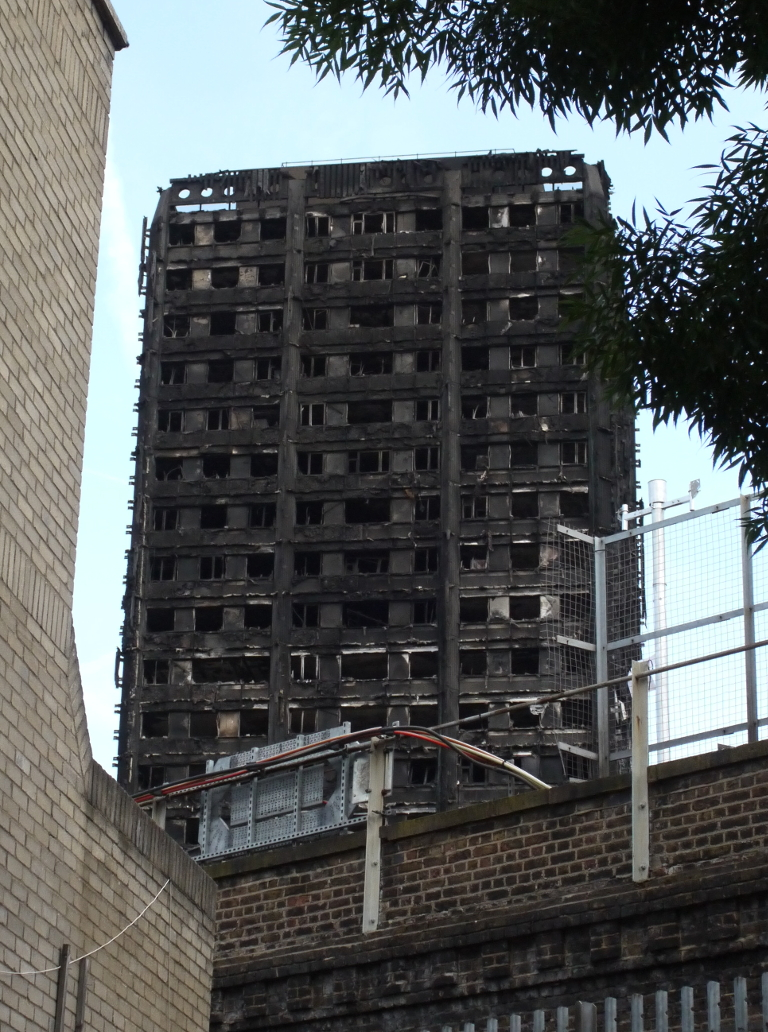 Grenfell Tower on 16 June 2017, two days after the fire